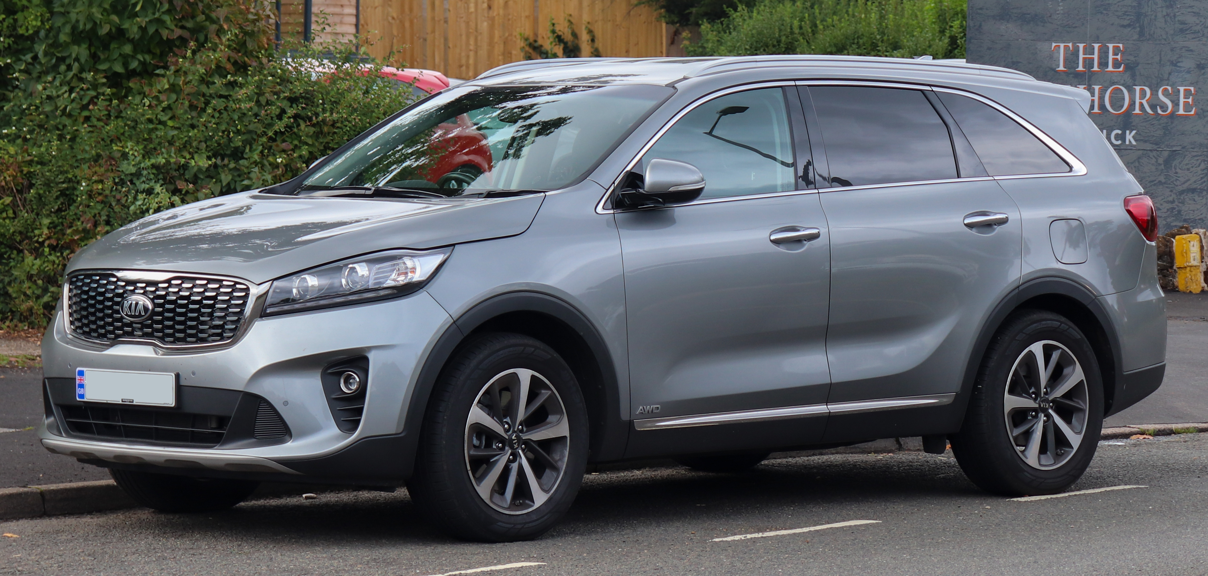 2018 Kia Sorento KX-2 CRDI ISG 4X4 2.2 Front Taken in Warwick